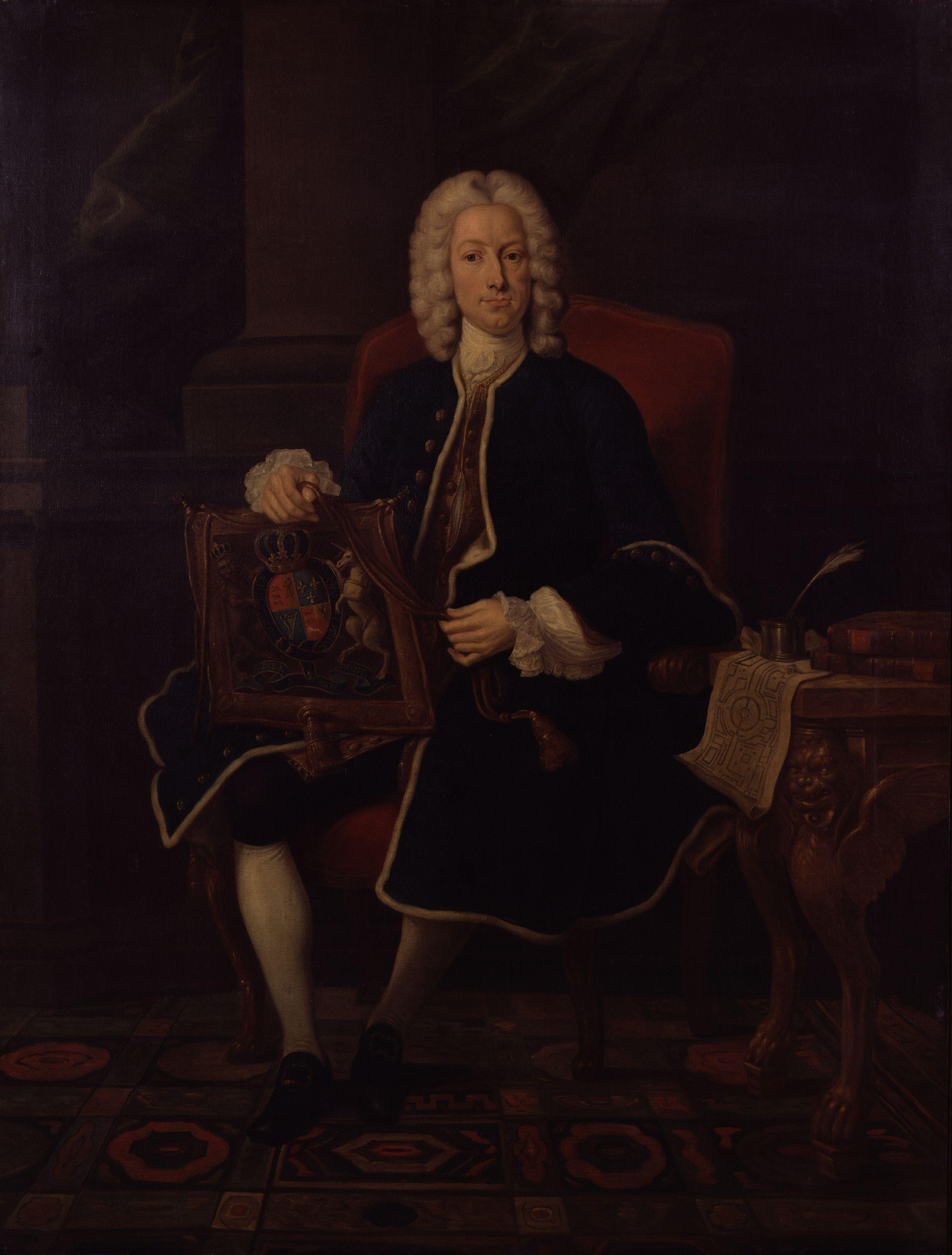 John Hervey, Baron Hervey of Ickworth, by Jean Baptiste van Loo (died 1745), given to the National Portrait Gallery, London in 1863. All images in this batch have been confirmed as author died before 1939 according to the official death date listed by the NPG.